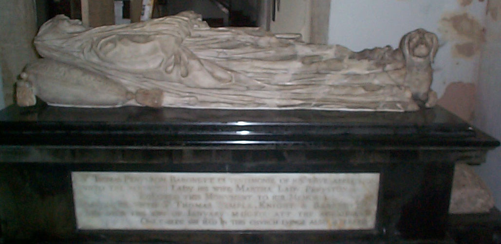 St Mary's parish church, Stowe, Buckinghamshire: monument in the Penyston Chapel to Martha Penistone née Temple, daughter of Sir Thomas Temple, 1st Baronet, of Stowe, and first wife of Sir Thomas Penyston, 1st Baronet. She died in 1619 or 1620.